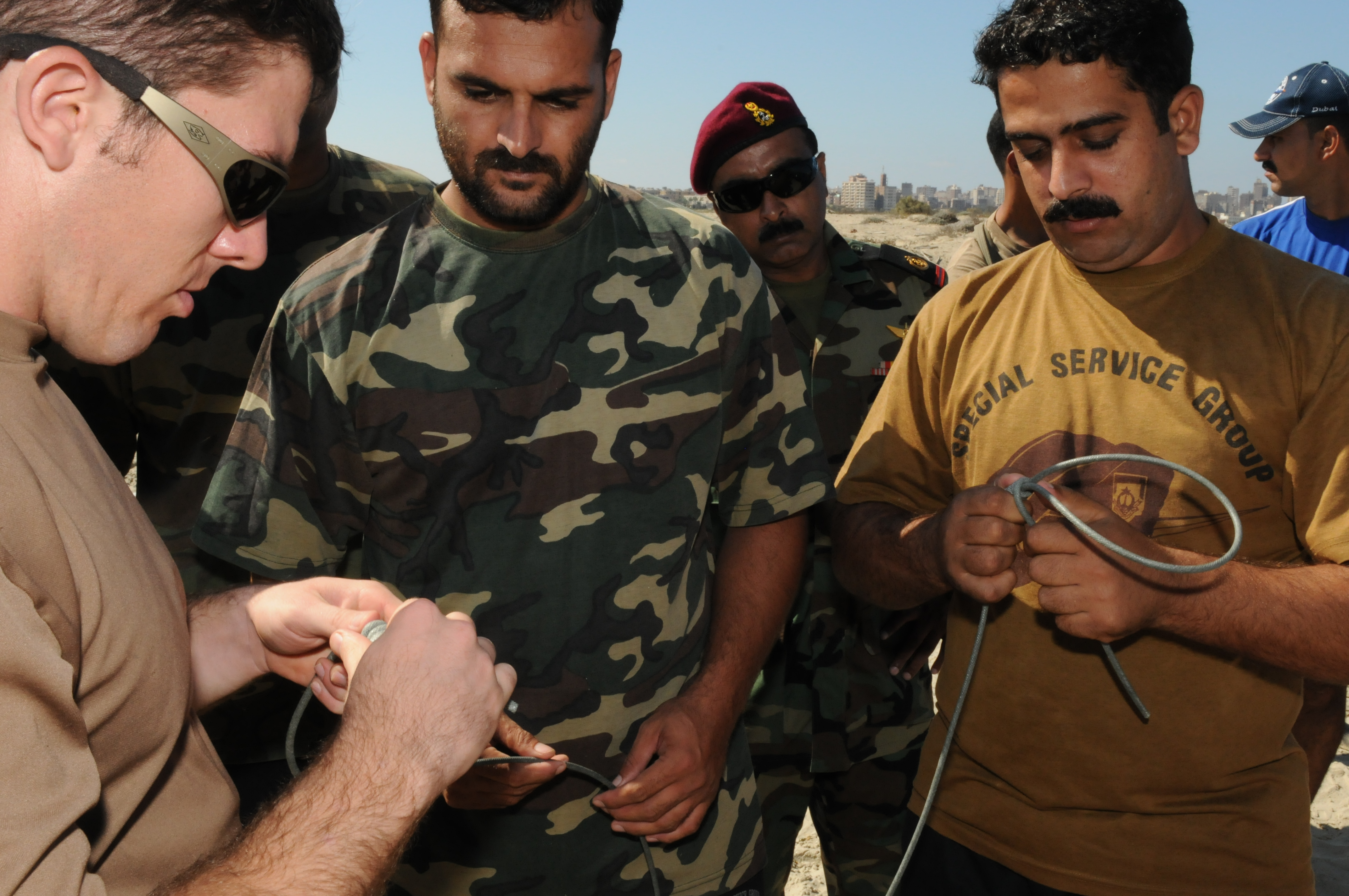 ALEXANDRIA, Egypt (Oct. 12, 2009) Pakistani navy sailors listen as Explosive Ordnance Disposal Technician 1st Class Mark Peters, assigned to Explosive Ordnance Disposal Mobile Unit (EODMU) 3, demonstrates the construction of underwater demolition charges during a Bright Star 2009 training exercise. Bright Star is a biennial, multinational exercise conducted by U.S. Central Command designed to improve readiness, interoperability, and strengthen the military and professional relationships among U.S., Egyptian and participating forces. (U.S. Navy photo by Mass Communication Specialist 1st Brandon Raile/Released)